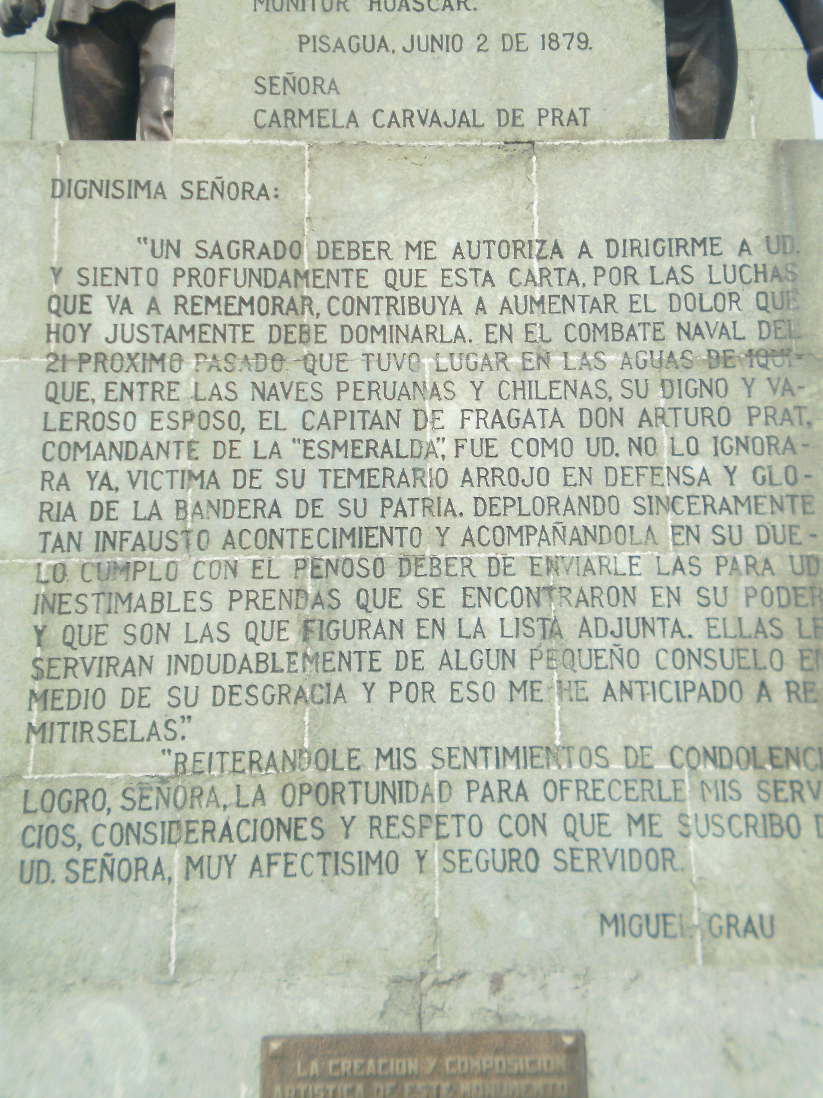 Letter of the knights Miguel Grau (Peruvian heroe) to the widow of chilean heroe Arturo Prat engraved on the pedestal of the statue of this hero in the Parque Forestal of Santiago, Chile